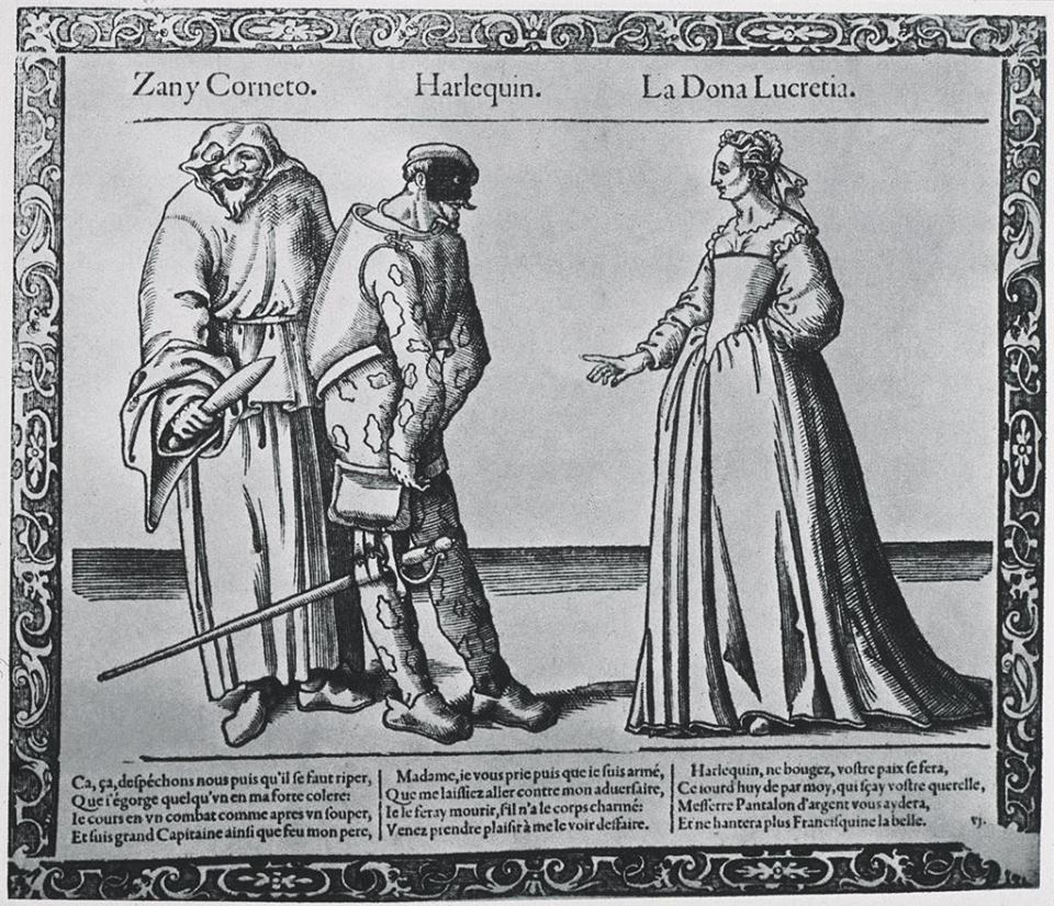 Zanni, Harlequin and Lucretia